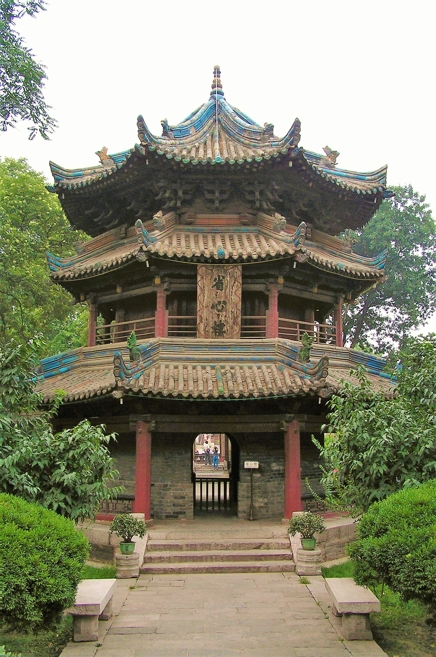 Chinese-style minaret of the Great Mosque (Xian, China) Author: Mr. Tickle Date: 07/23, 2005